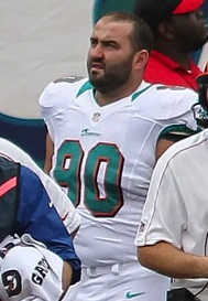 Miami Dolphins defensive end Ryan Baker on the sidelines in a 2012 game vs. the Oakland Raiders